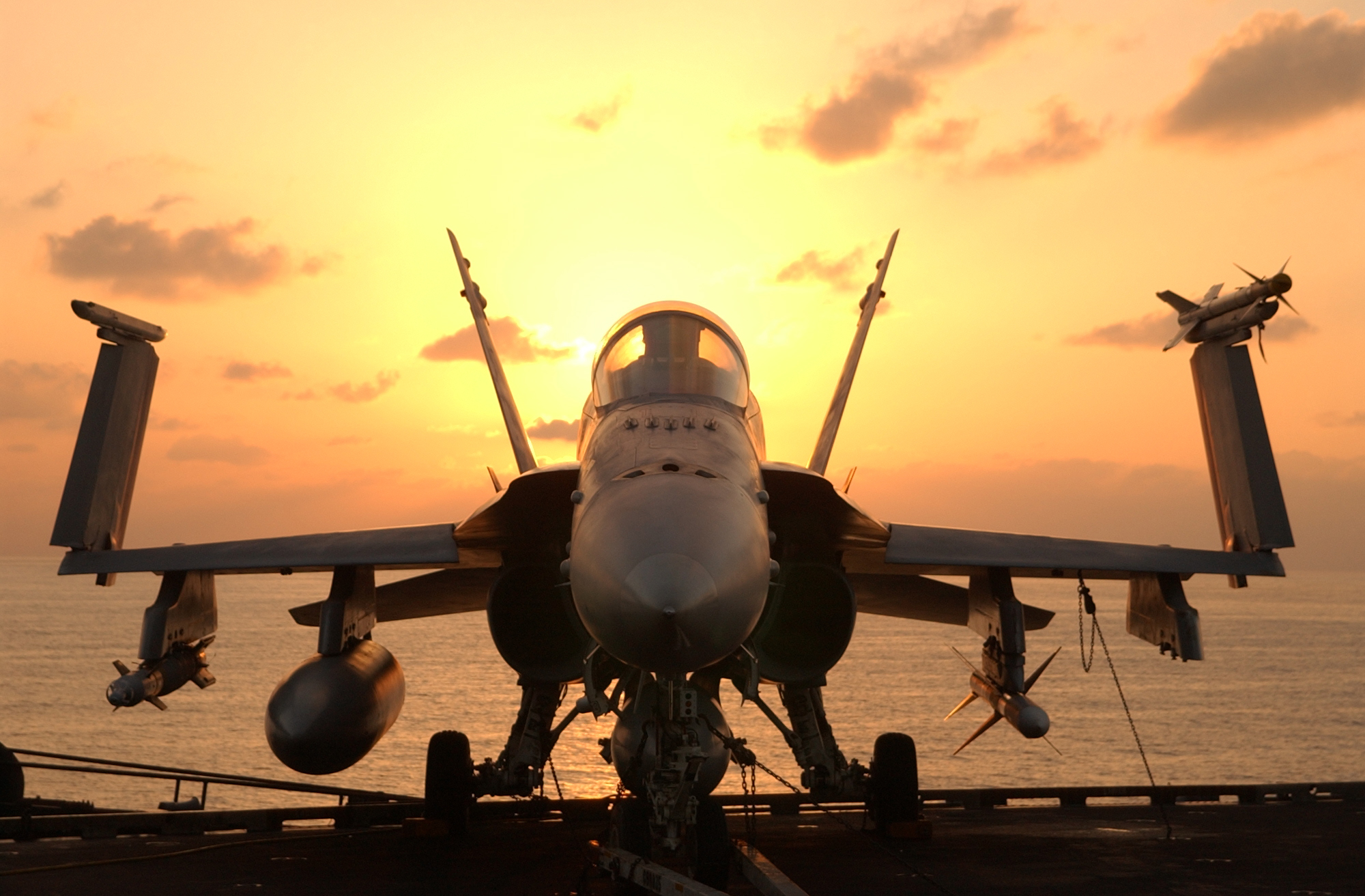 011218-N-9769P-047 At sea aboard USS John C. Stennis (CVN-74) Dec. 18, 2001 -- After an early morning round of flight operations, an F/A-18 “Hornet” awaits the next round of combat flight operations aboard USS John C. Stennis. Stennis and her embarked Carrier Air Wing Nine (CVW-9) are supporting Operation Enduring Freedom. U.S. Navy photo by Photographer's Mate 3rd Class Jayme Pastoric. (RELEASED)